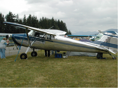 Cessna 170, 2004 Arlington Fly-In.